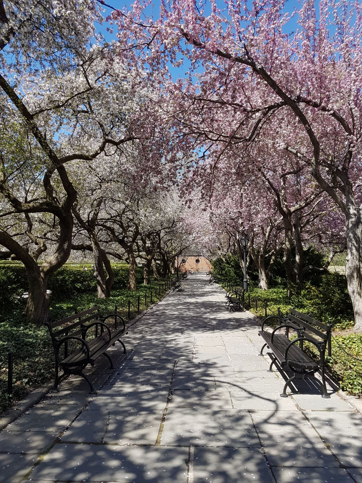 Picture of a public park from the Norman town of Argentan in France, in April 2017.